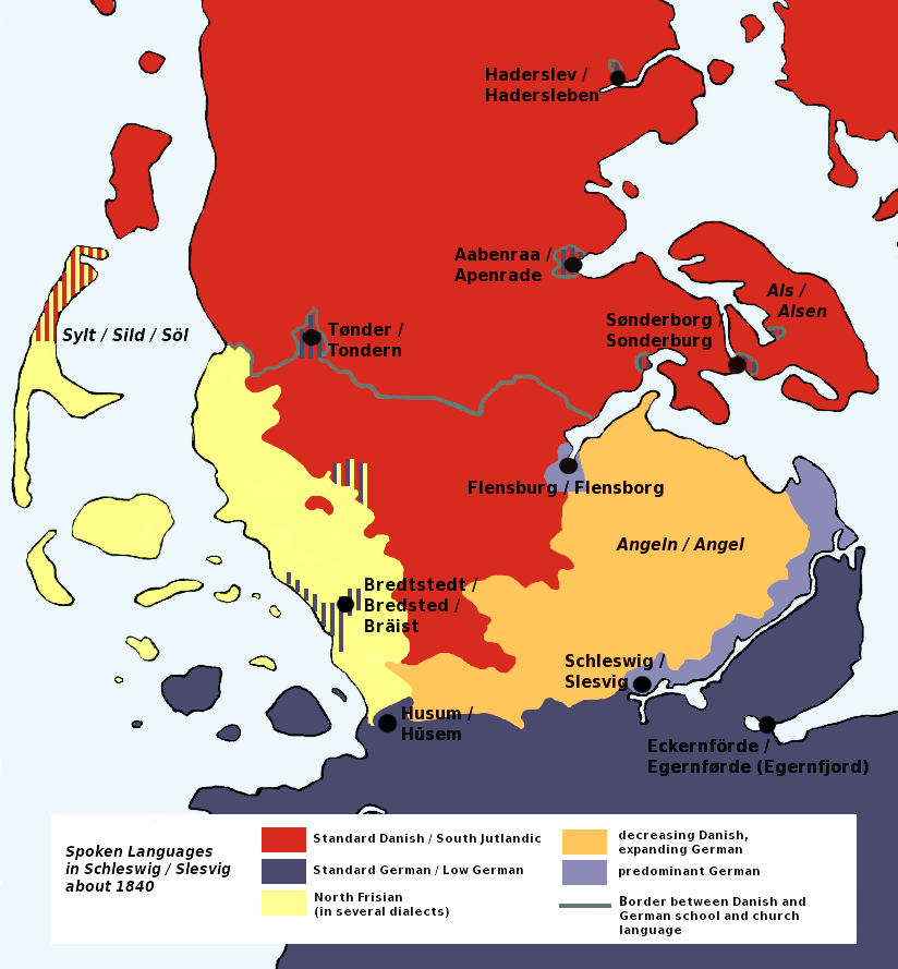 Linguistic Situation in Schleswig / Slesvig about 1840, source: "Sprachwandel in Schleswig um 1840", Historischer Atlas Schleswig-Holstein vom Mittelalter bis 1867, Neumünster 2004, with consideration of historical maps from the 19th century.